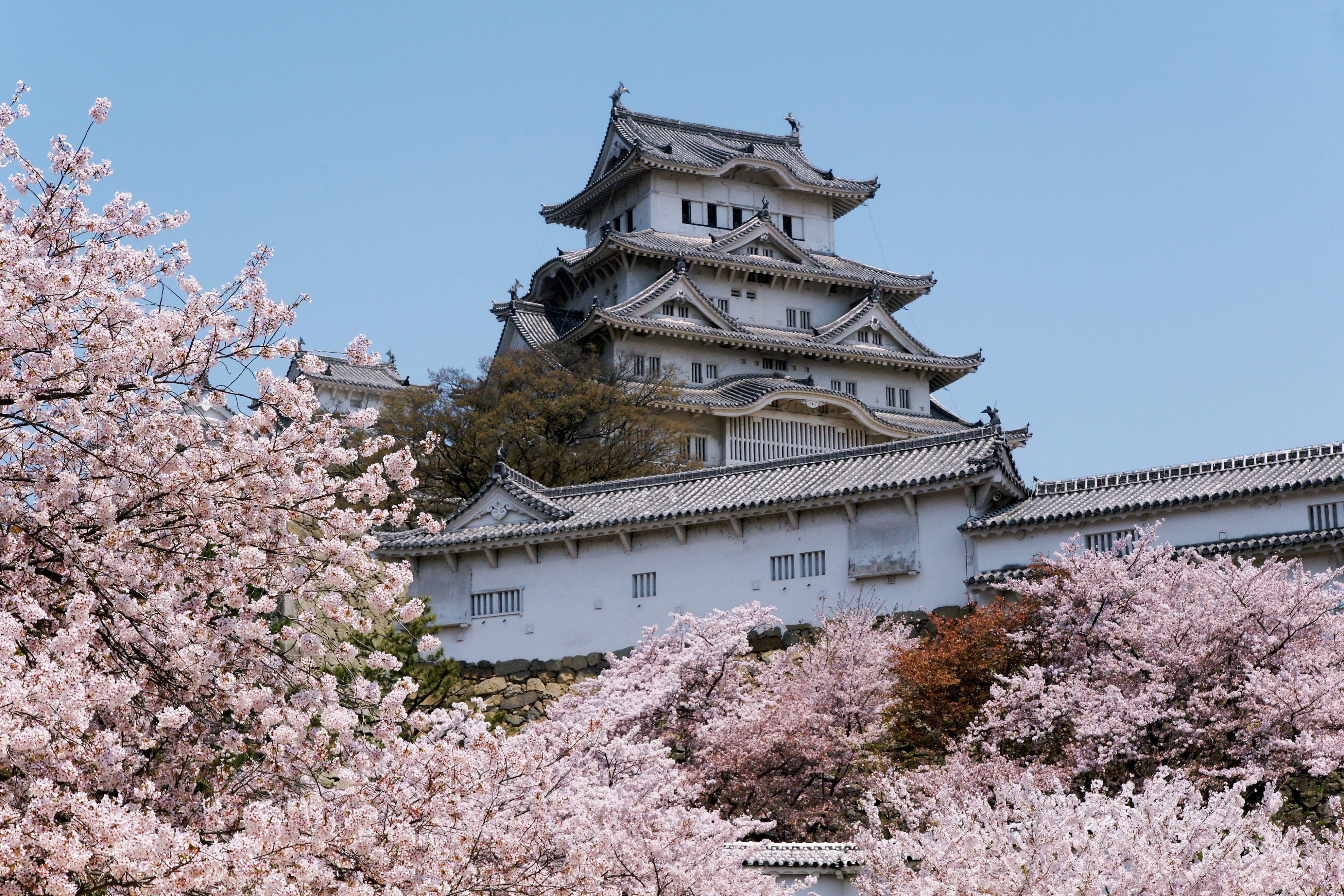 Himeji Castle in Tsu, Hyogo prefecture, Japan.